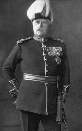 Portrait of Sir William Pitcairn Campbell (1856-1933)